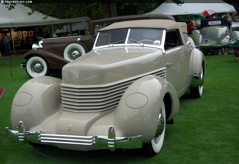 Photograph of the 1938 Model 814 Prototype. Note change from 810/812 models in backslope of grille and smoother transmission cover.